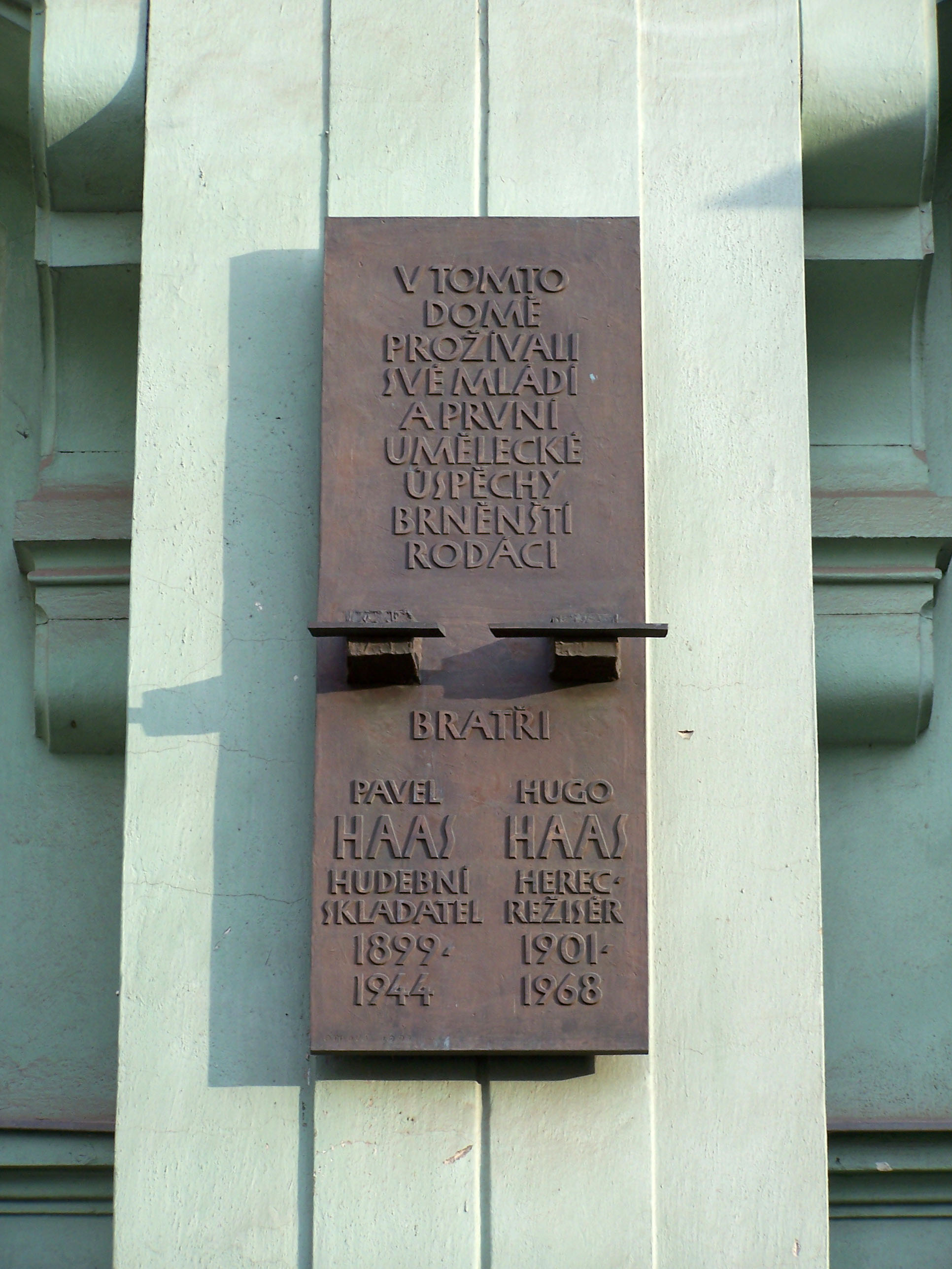 The Brno natives spent their youth and experienced their first artistic achievements in this house. Brothers: Pavel Haas, music composer, 1899–1944; Hugo Haas, actor and director, 1901–1968